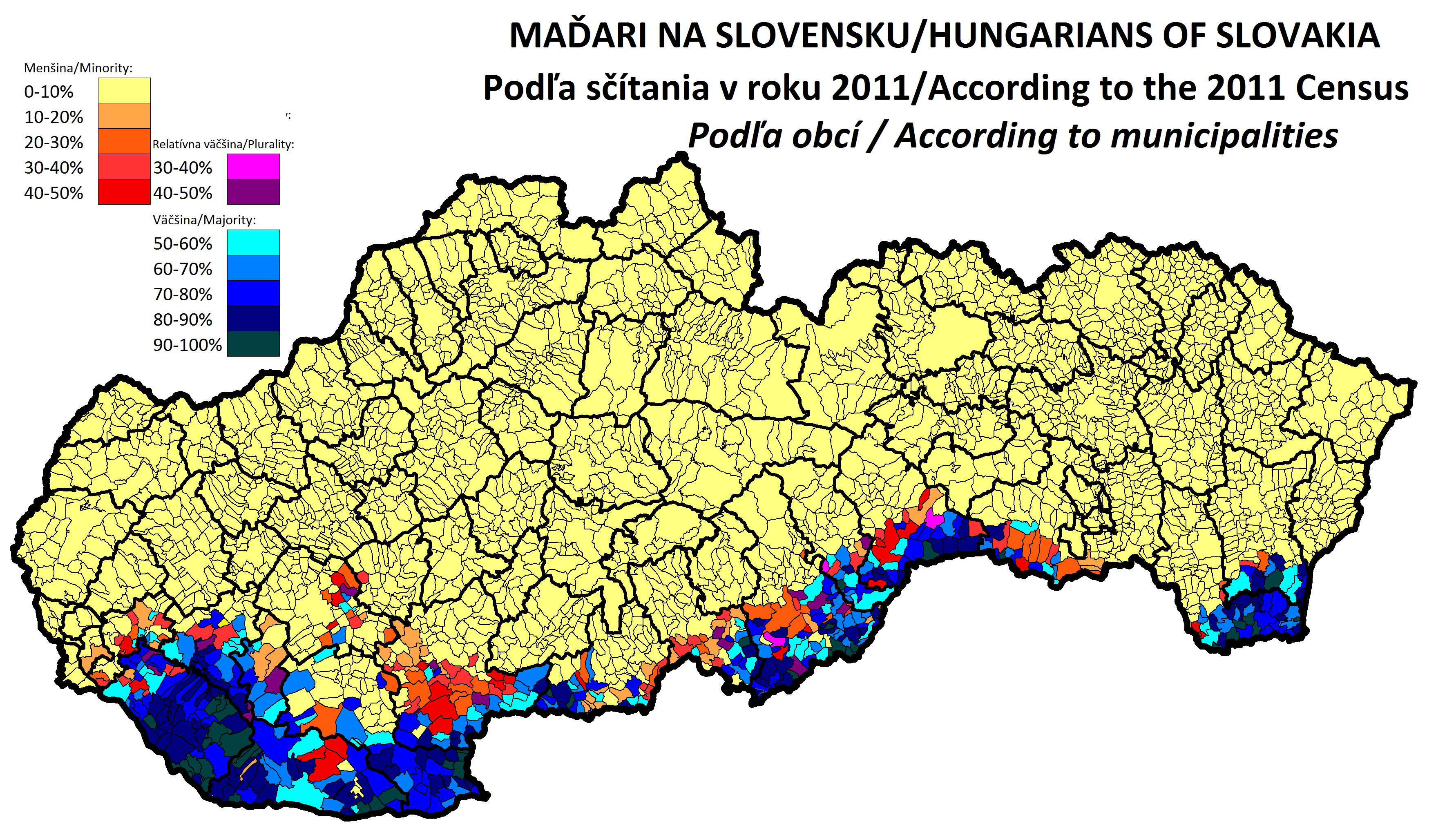 Hungarians of Slovakia in 2011.